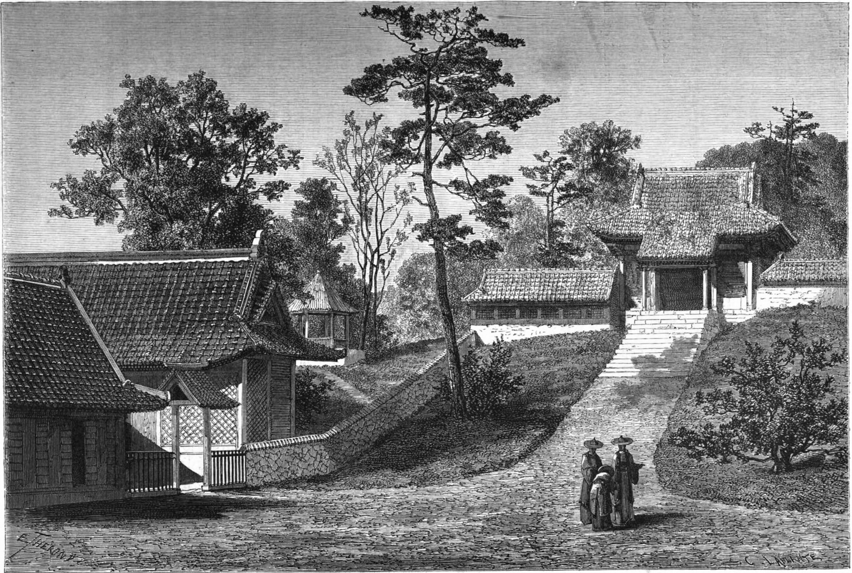 Henri Zuber, Yamoun du gouverneur à Kang-hoa, from Henri Zuber (1873). Une expédition en Corée, 1866. Le Tour du monde: Nouveau journal des voyages. Paris; London: Hachette. 25: 401-416.